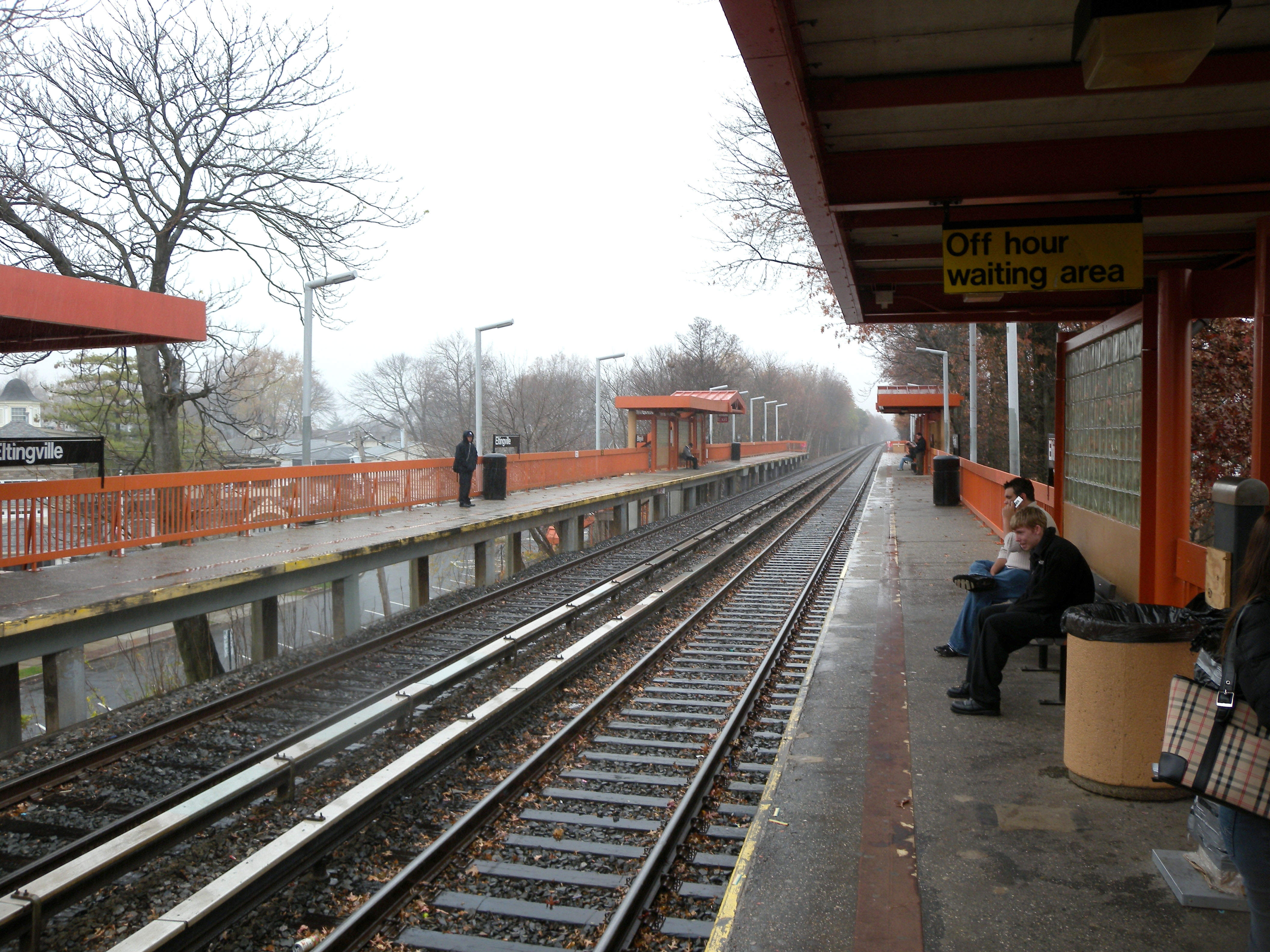 Looking northeast along northbound platform of Eltingville (Staten Island Railway station) on a rainy afternoon. See also File:Eltingville SIR jeh.JPG.